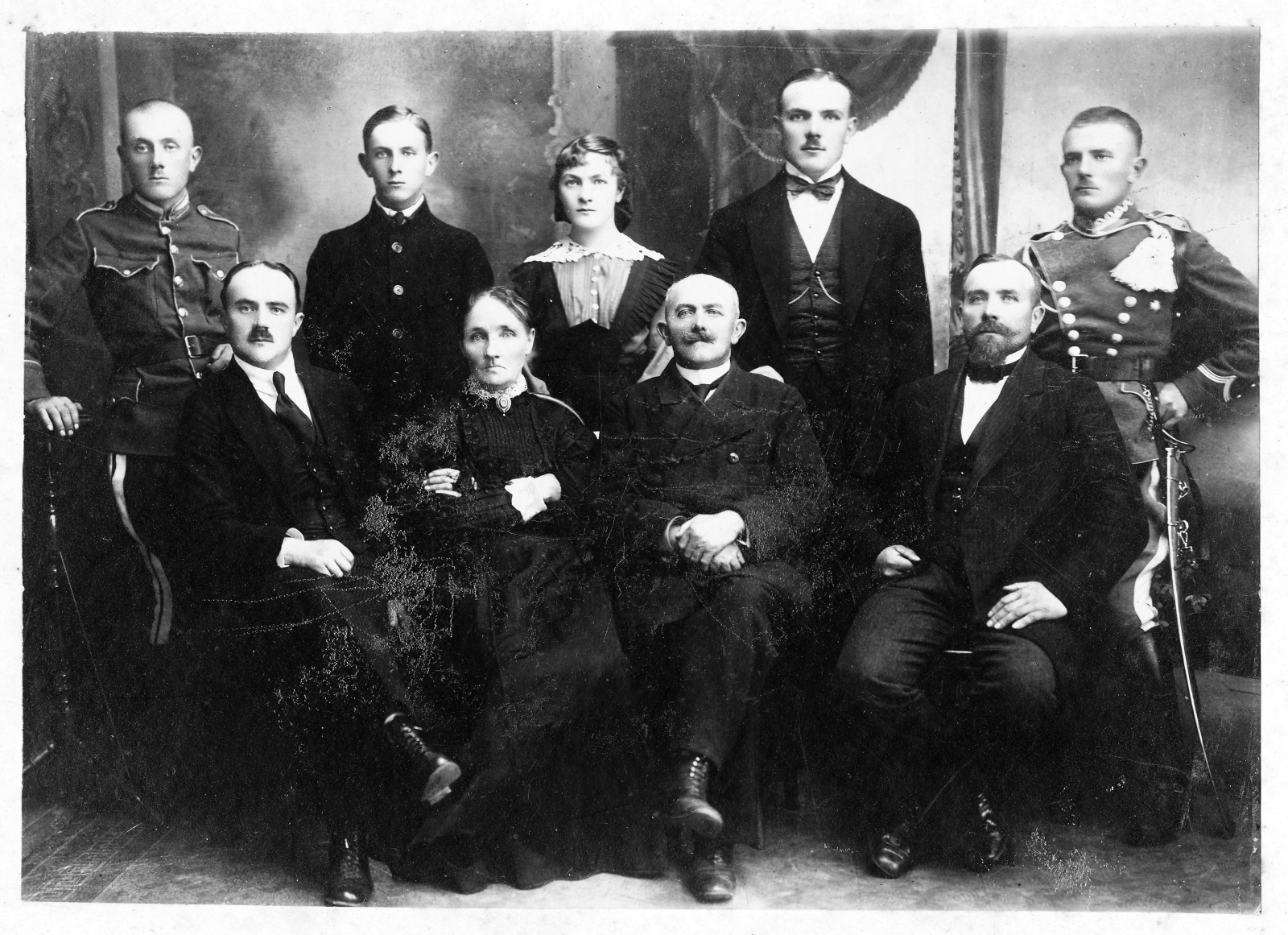 The Witecki family in the 1920s. Top row, from the left: Tadeusz, Roman, Henryka, Cezary, Klemens (father). Front row, from left: Zygmunt, Józefa (grandmother), Wincenty (grandfather), Ignacy.